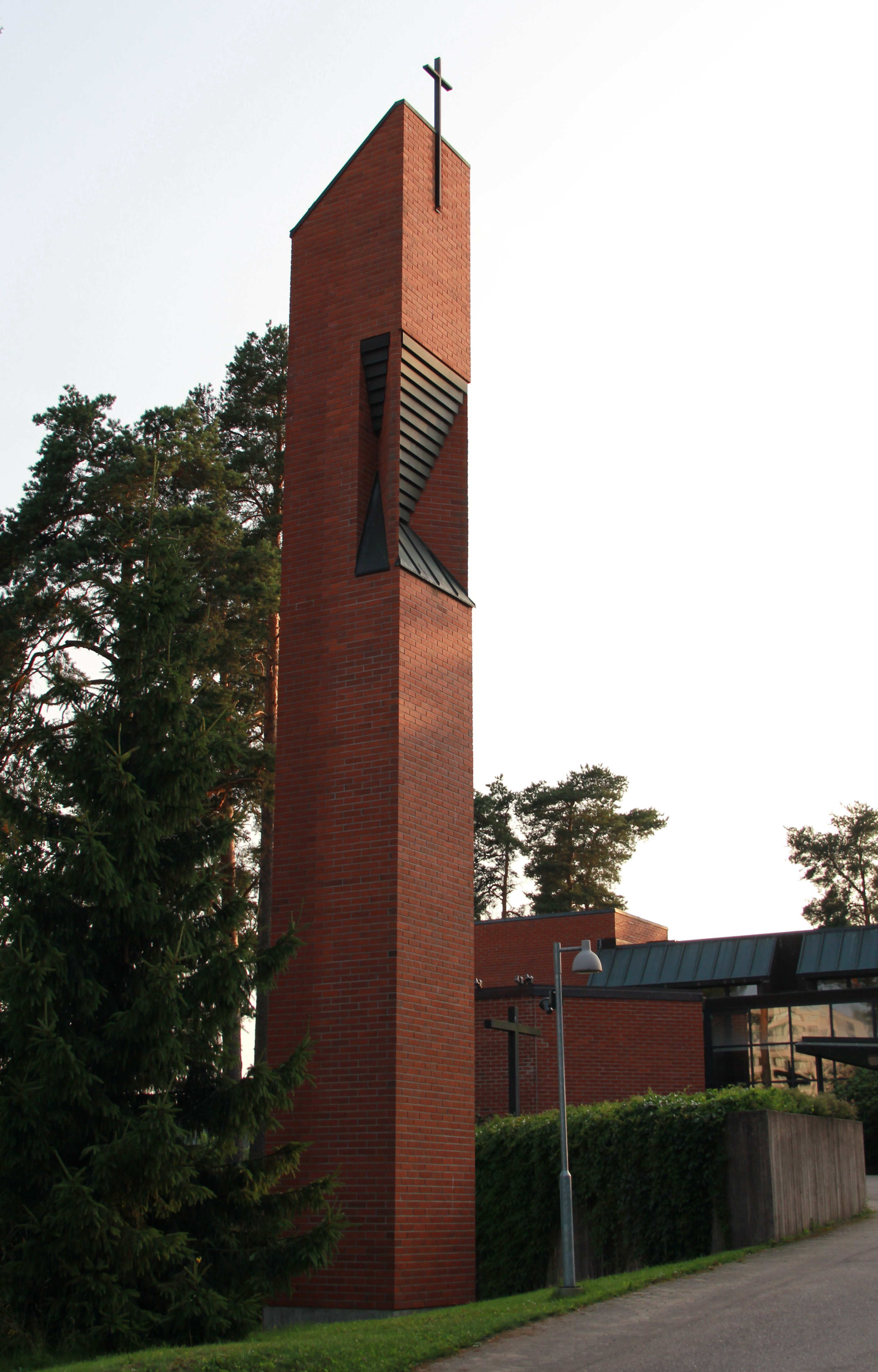 Kaarina Church in Kaarina, Finland. Architects Pitkänen-Laiho-Raunio, completed in 1980 as a parish center, since 1991 as a church.